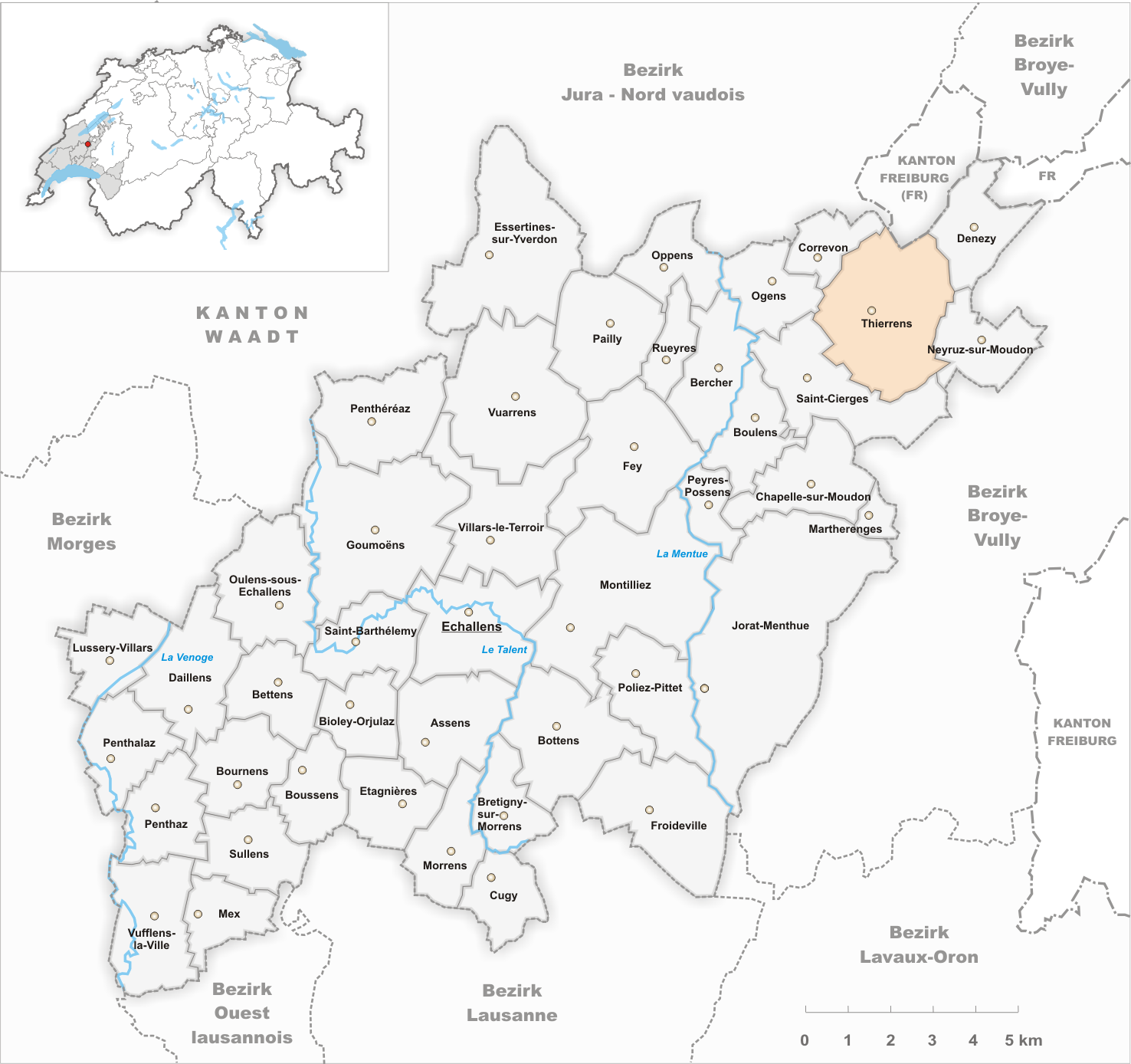 Municipality Thierrens